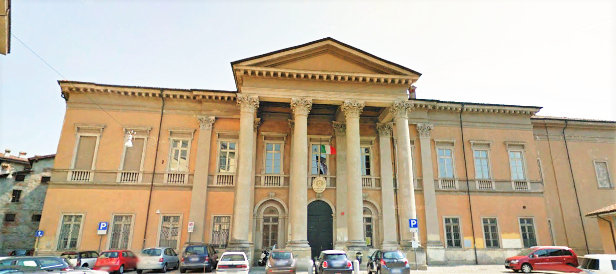 The facade of the Liceo Classico Paolo Sarpi building, designed by Ferdinando Crivelli in 1842.